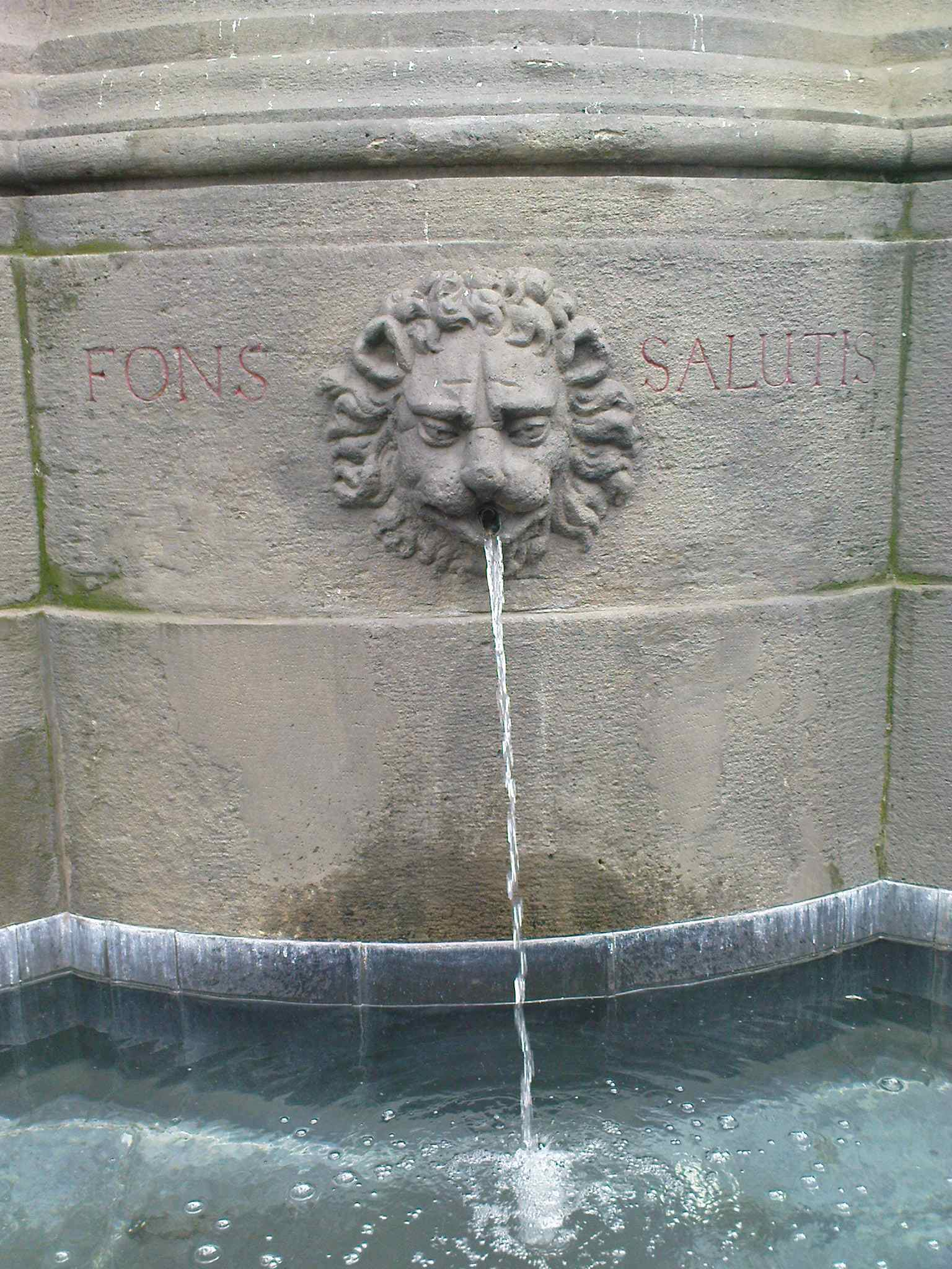 Gargoyle-Mascaron in the Holy Trinity Column on the Malostranske namesti, Prague